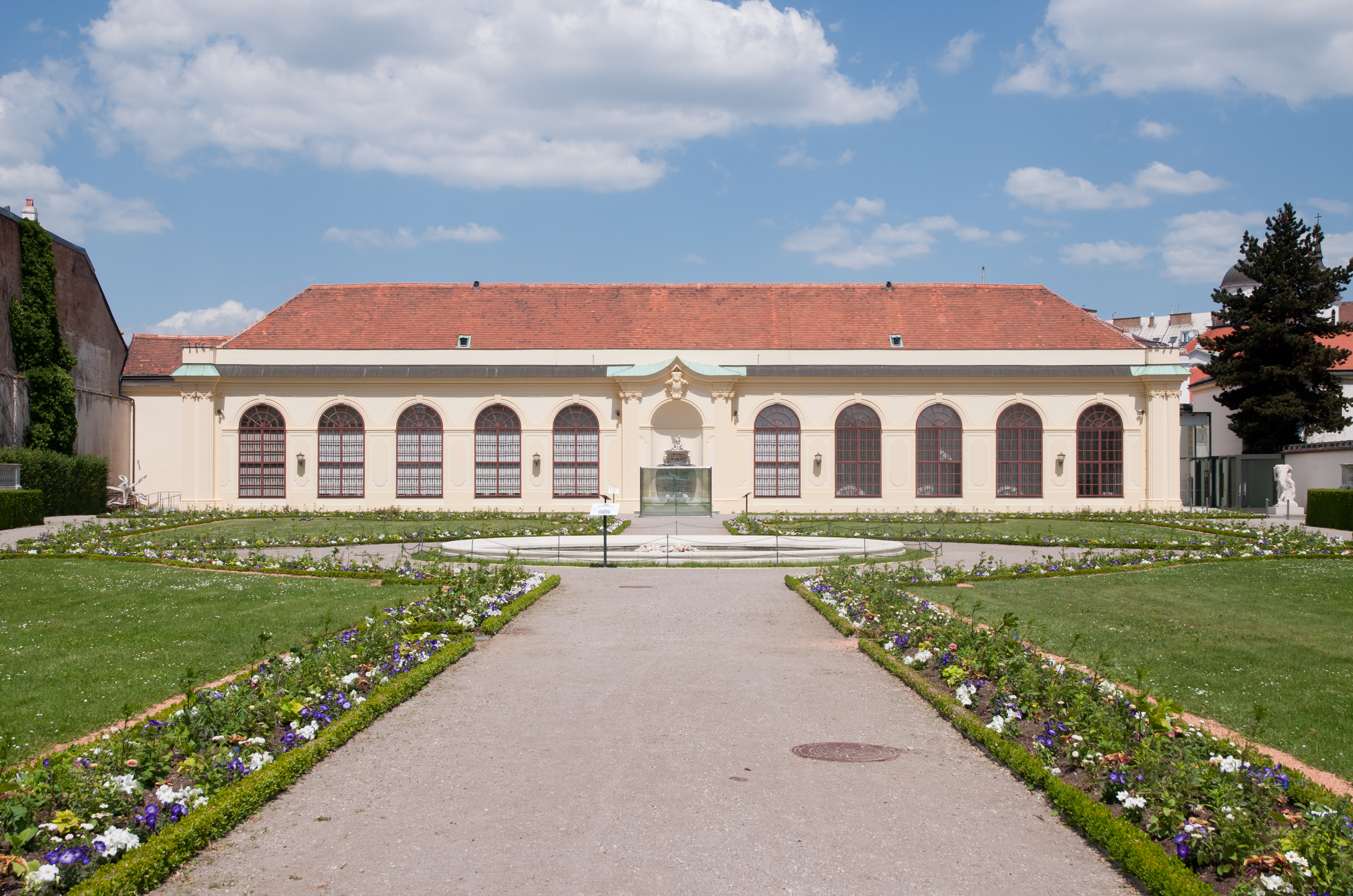 The Orangery at Lower Belvedere, Vienna. Nowadays the building houses a modern art expositions.